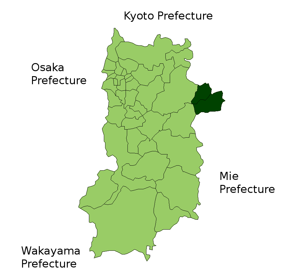 Location Map of Uda District in Nara Prefecture, Japan